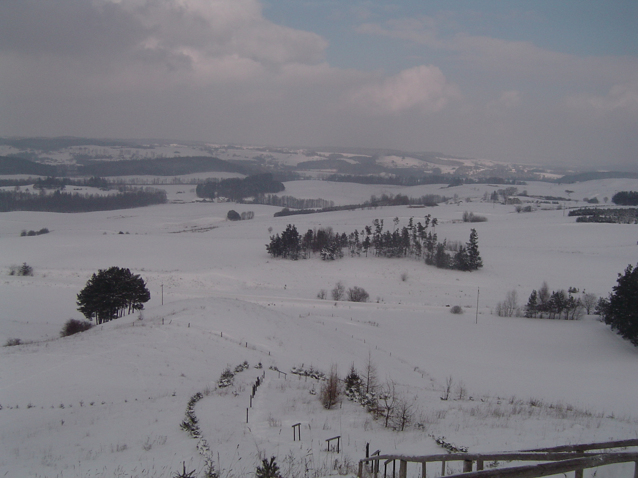 Landscape around Błędziszki village in Poland